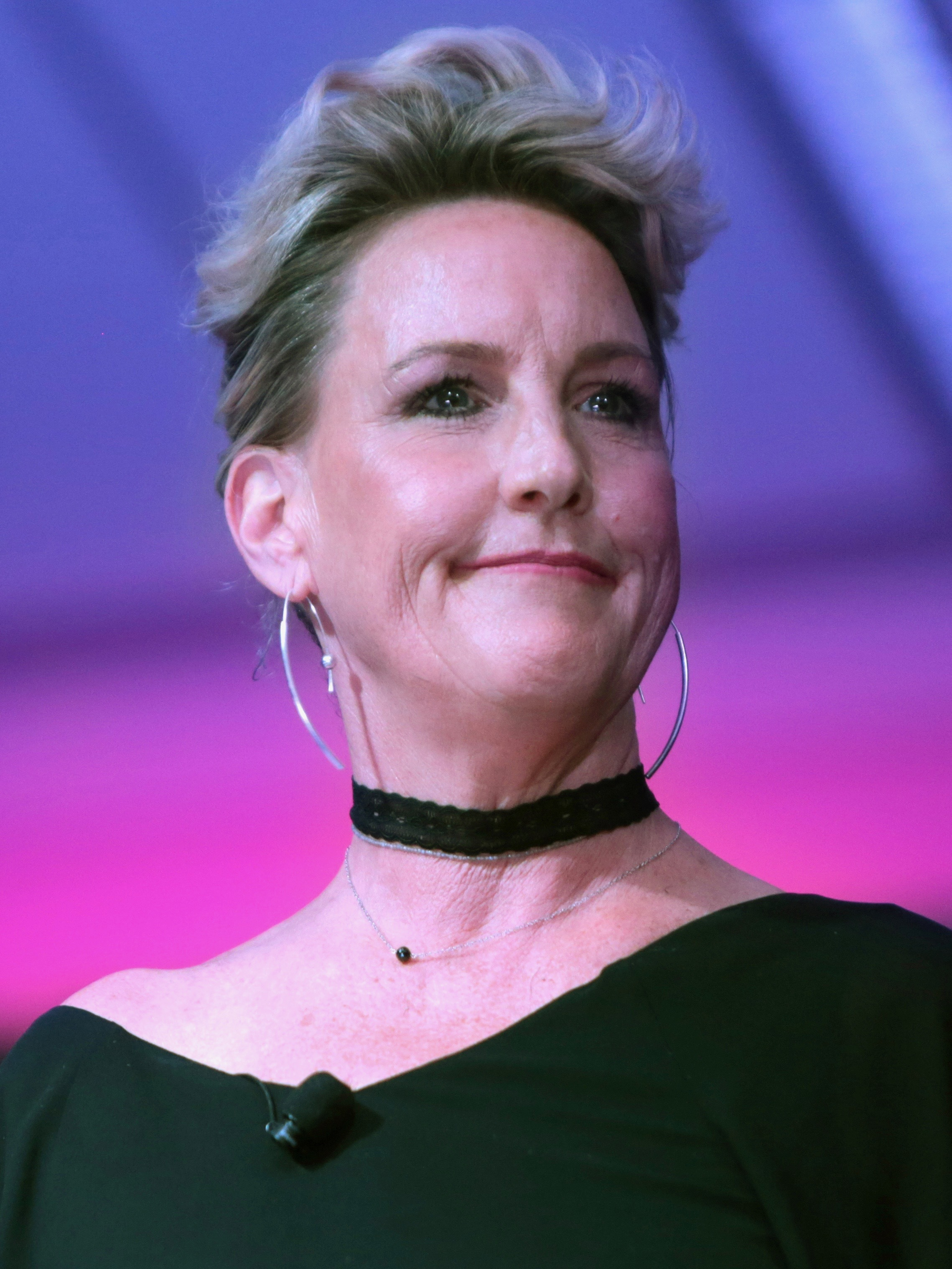 Erin Brockovich speaking at the 2016 Arizona Ultimate Women's Expo at the Phoenix Convention Center in Phoenix, Arizona.